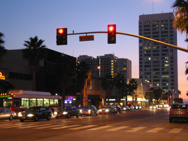 Wilshire blvd. in Santa Monica at twilight.